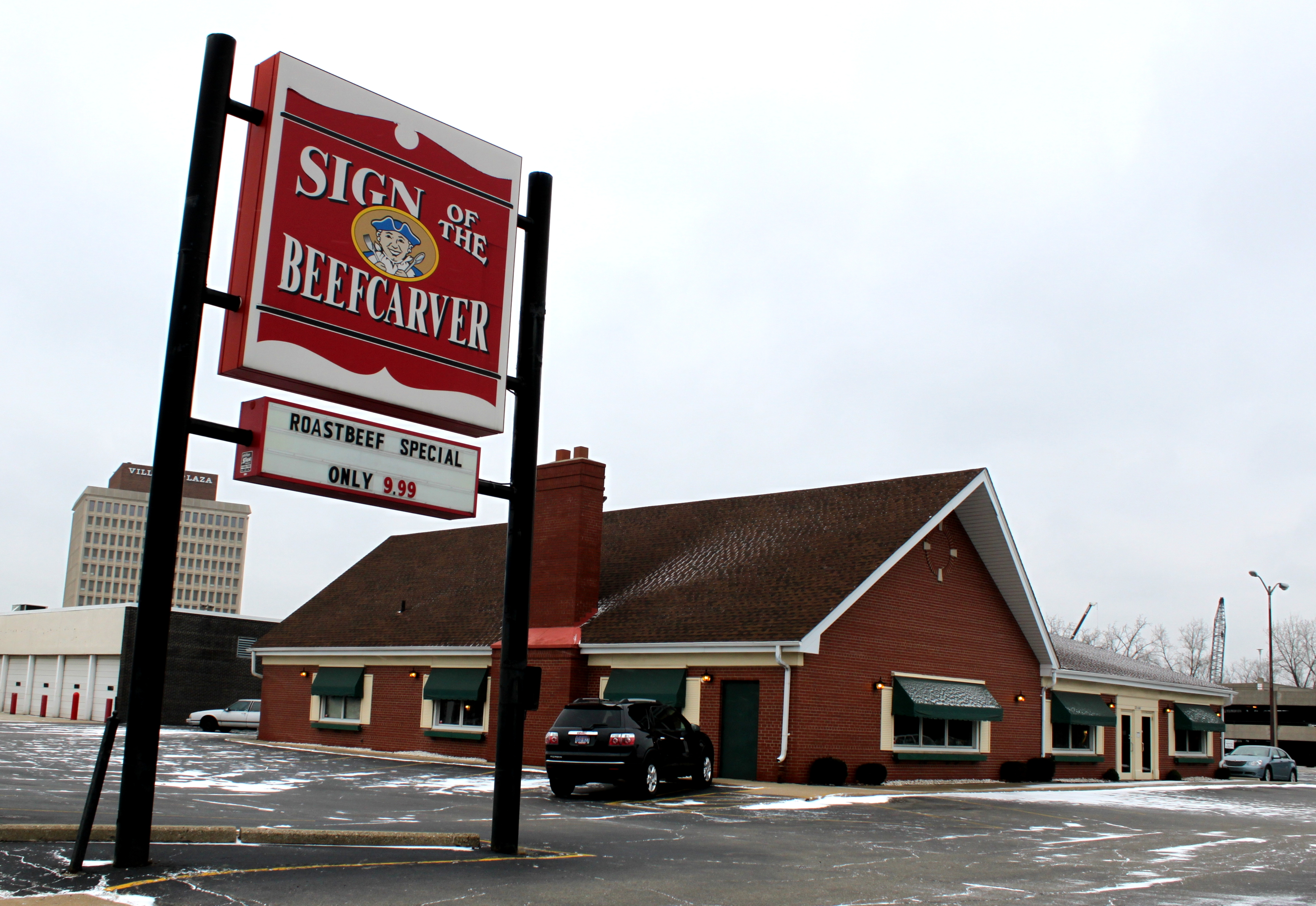 Sign of the Beefcarver restaurant, 23100 Michigan Avenue, Dearborn, Michigan (demolished May 2019)